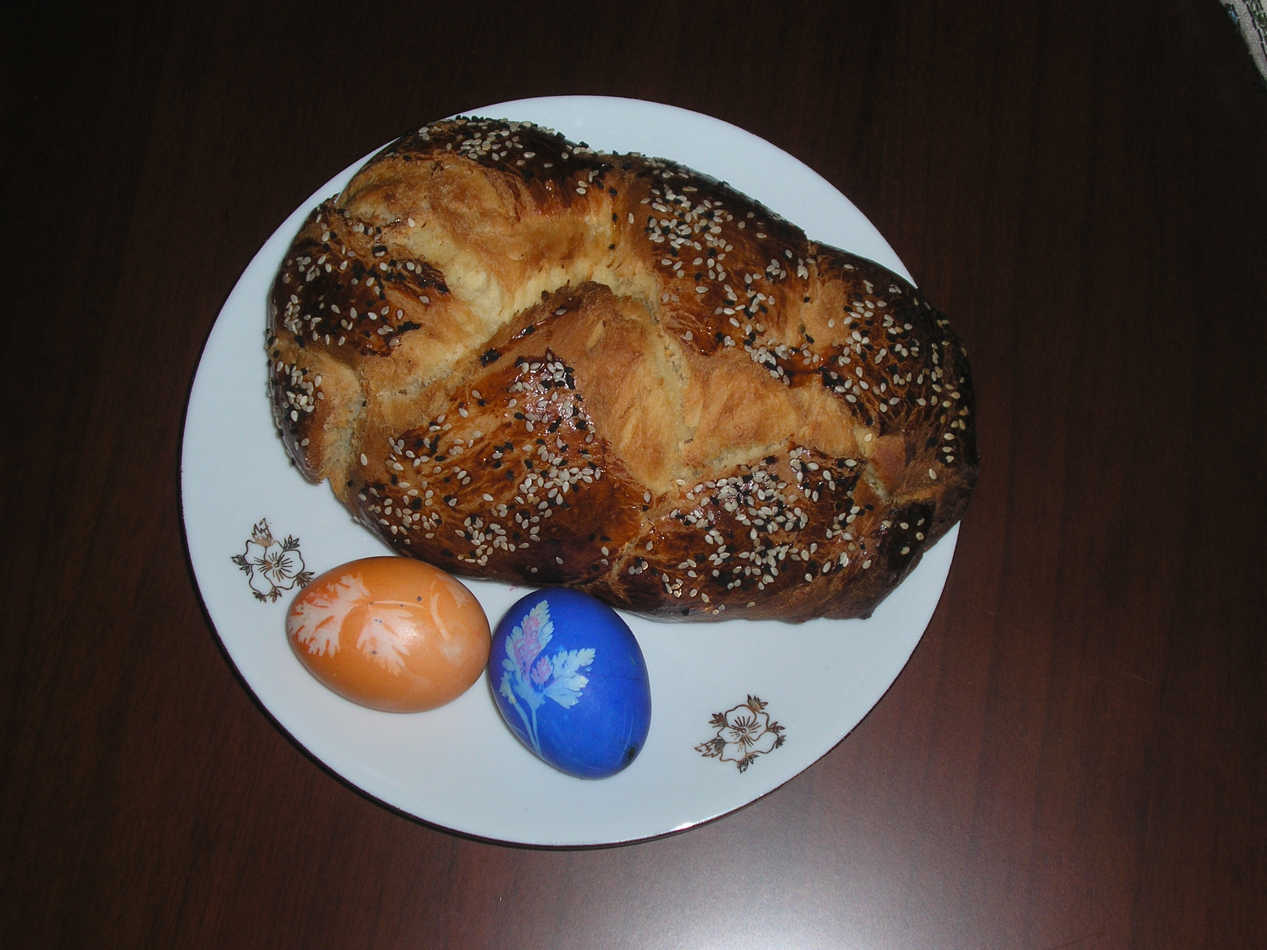 Paskalya çöreği (Easter bread), a version of çörek that is originally for Easter, though it is usually available year around in Istanbul. This particular home made loaf was a gift for Easter.